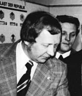 Bundesarchiv Bild 183-N0209-0314, Berlin, Modell 'Palast der Republik', Graffunder cropped to highlight Heinz G for use with a wiki entry used by small screen people